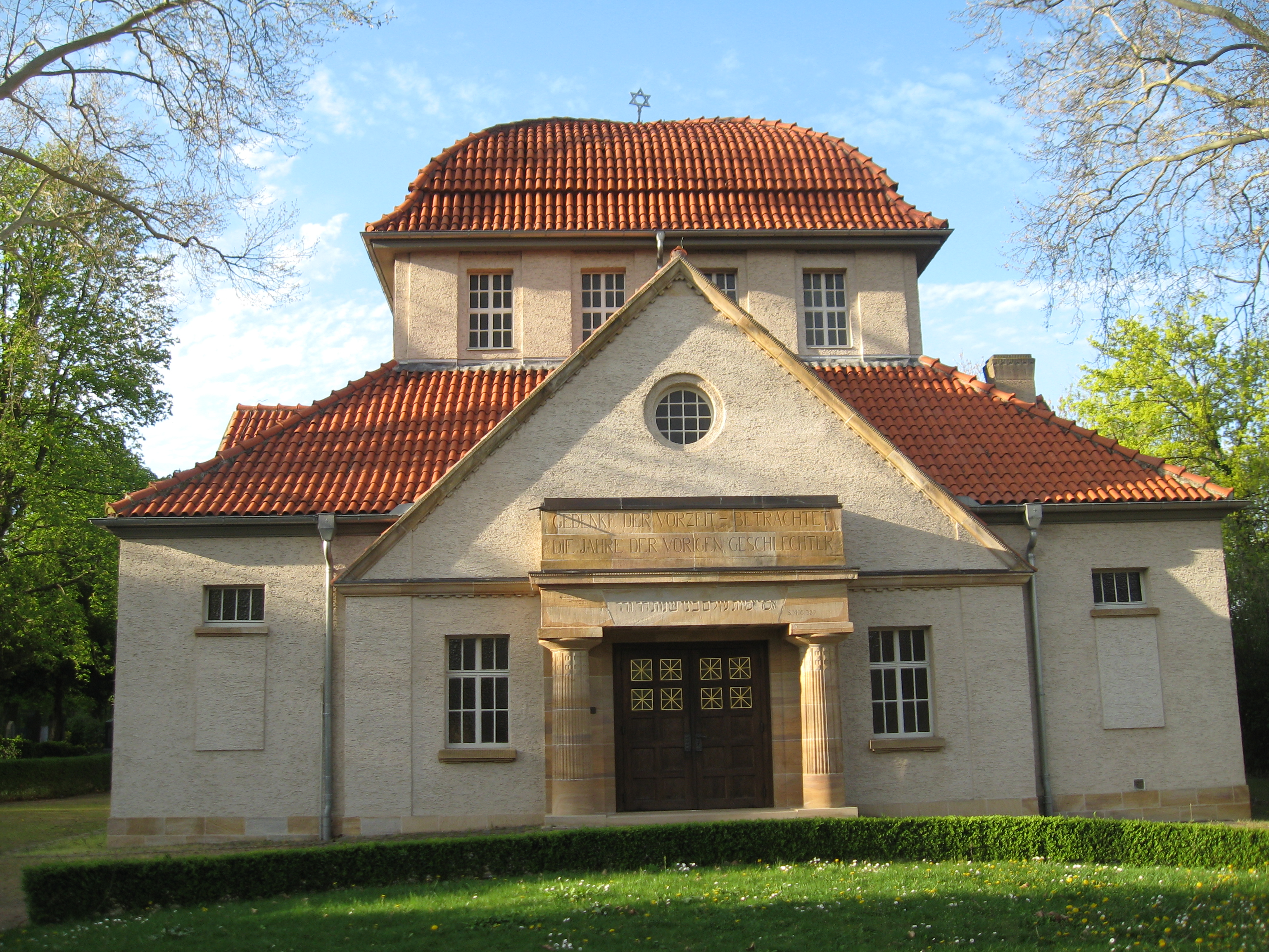 Neuer jüdischer Friedhof, Worms, Germany